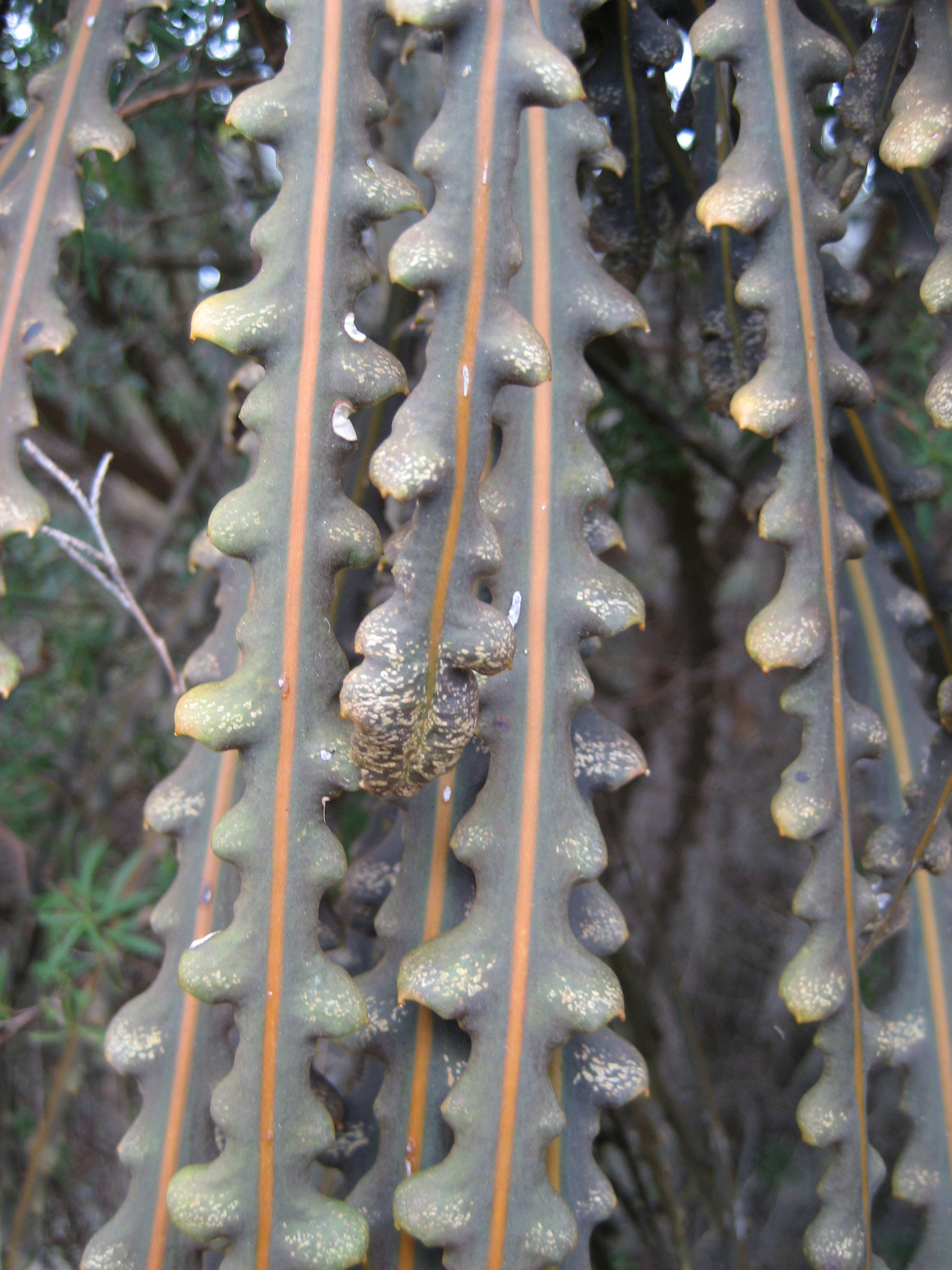 Pseudopanax ferox, detail of juvenile leaves. Auckland, New Zealand